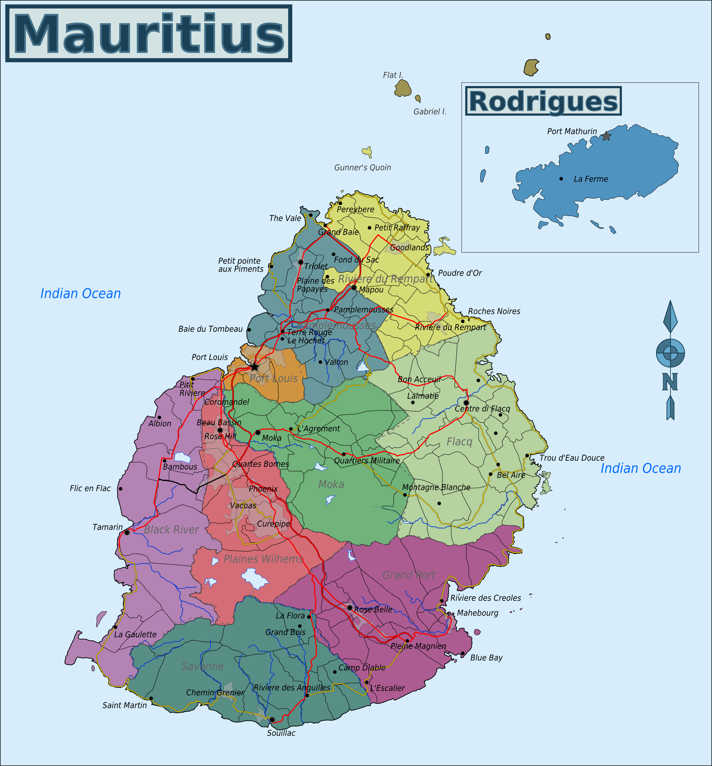 A graphic map of Mauritius regions (Wikivoyage regional scheme)